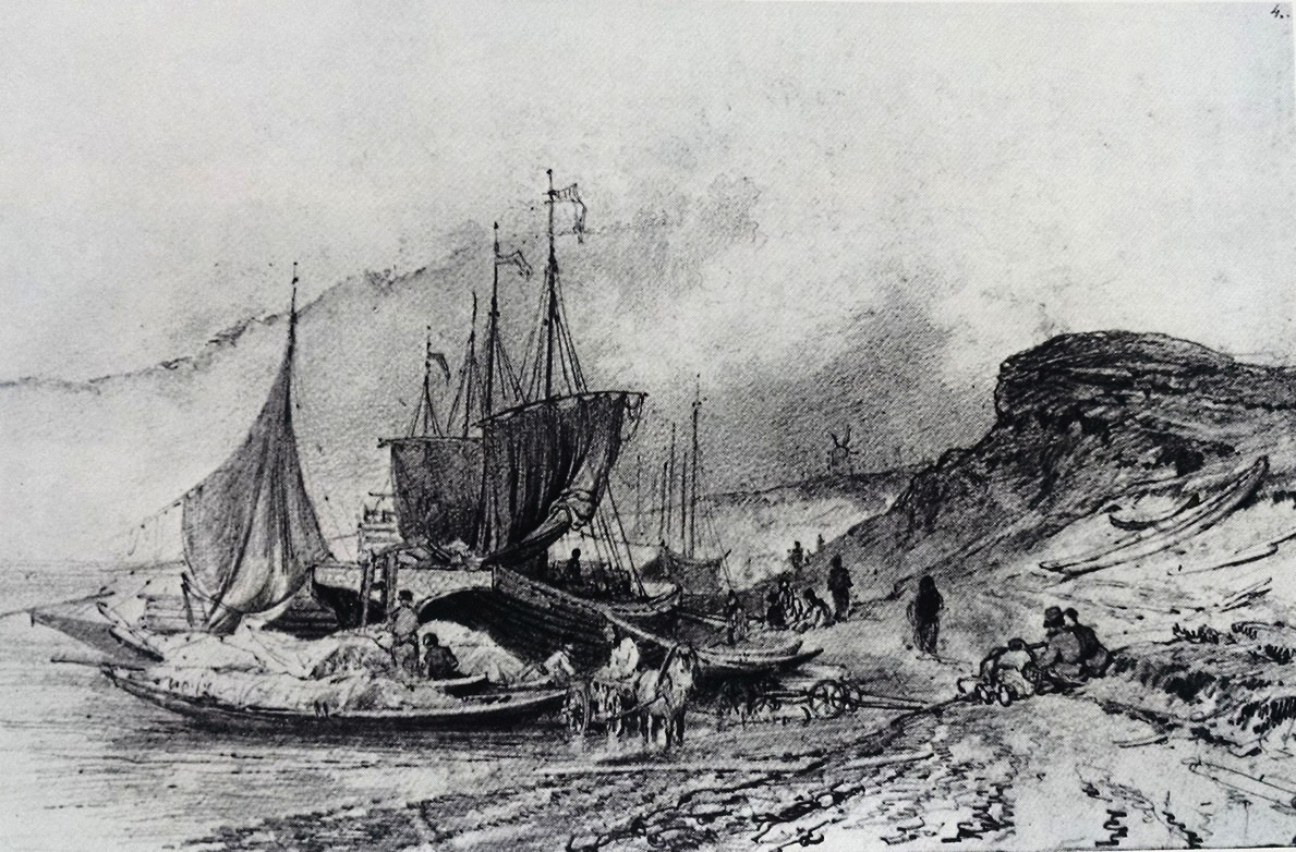 A barque and boats at the shore (drawing by Fyodor Vasilyev, 1870)